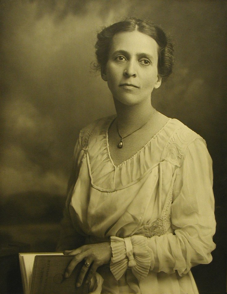 A sepia-toned photograph of a white woman, her dark hair parted center and dressed back; she is wearing a loose-fitting white dress with a v-neck and long sleeves, with a small pendant. She is holding a book in her hands.